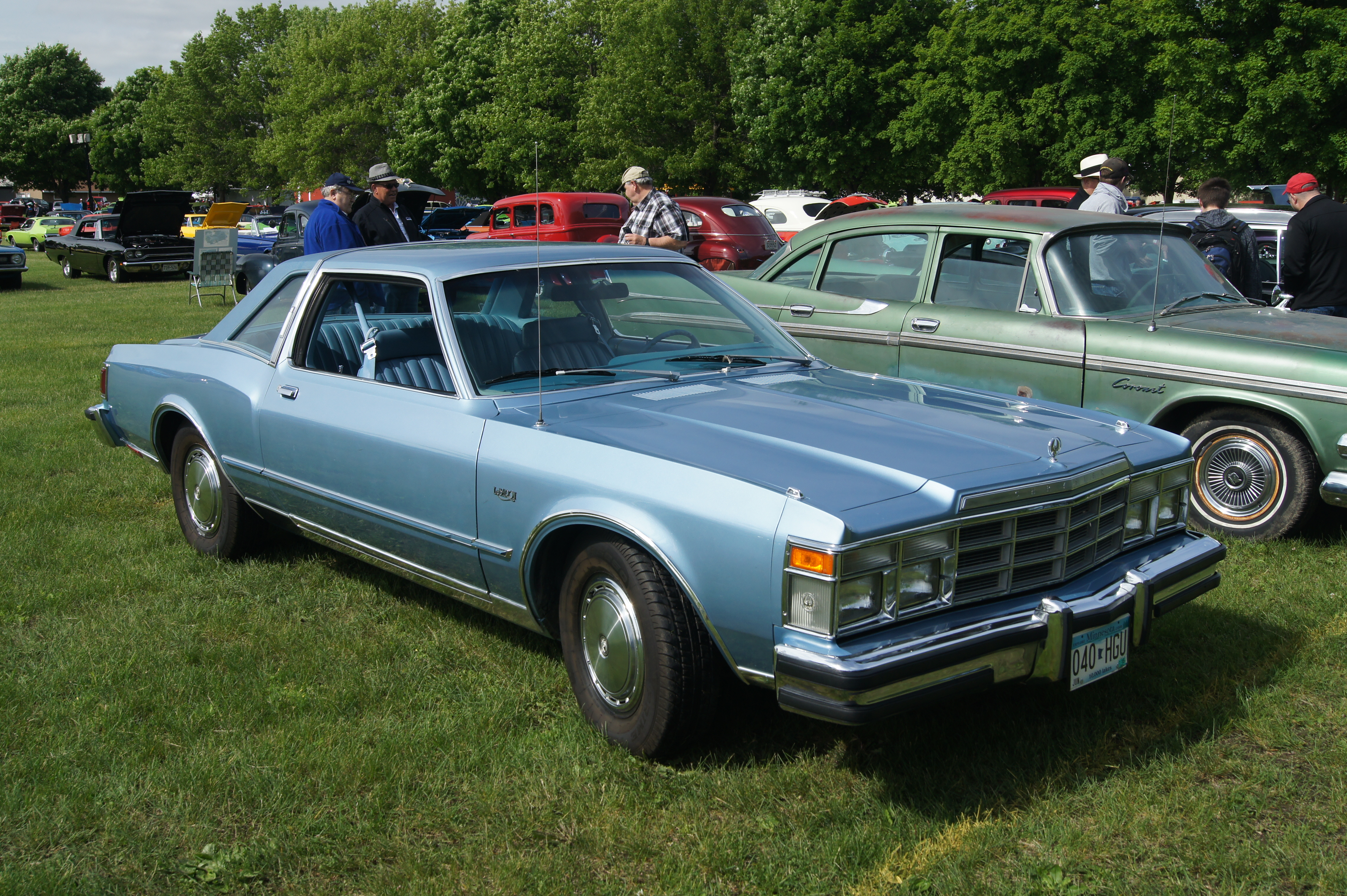 Midwest Mopars in the Park National Car Show & Swap Meet Dakota County Fairgrounds Farmington, Minntesota May 30 & 31, 2015 Click here for more car pictures at my Flickr site.